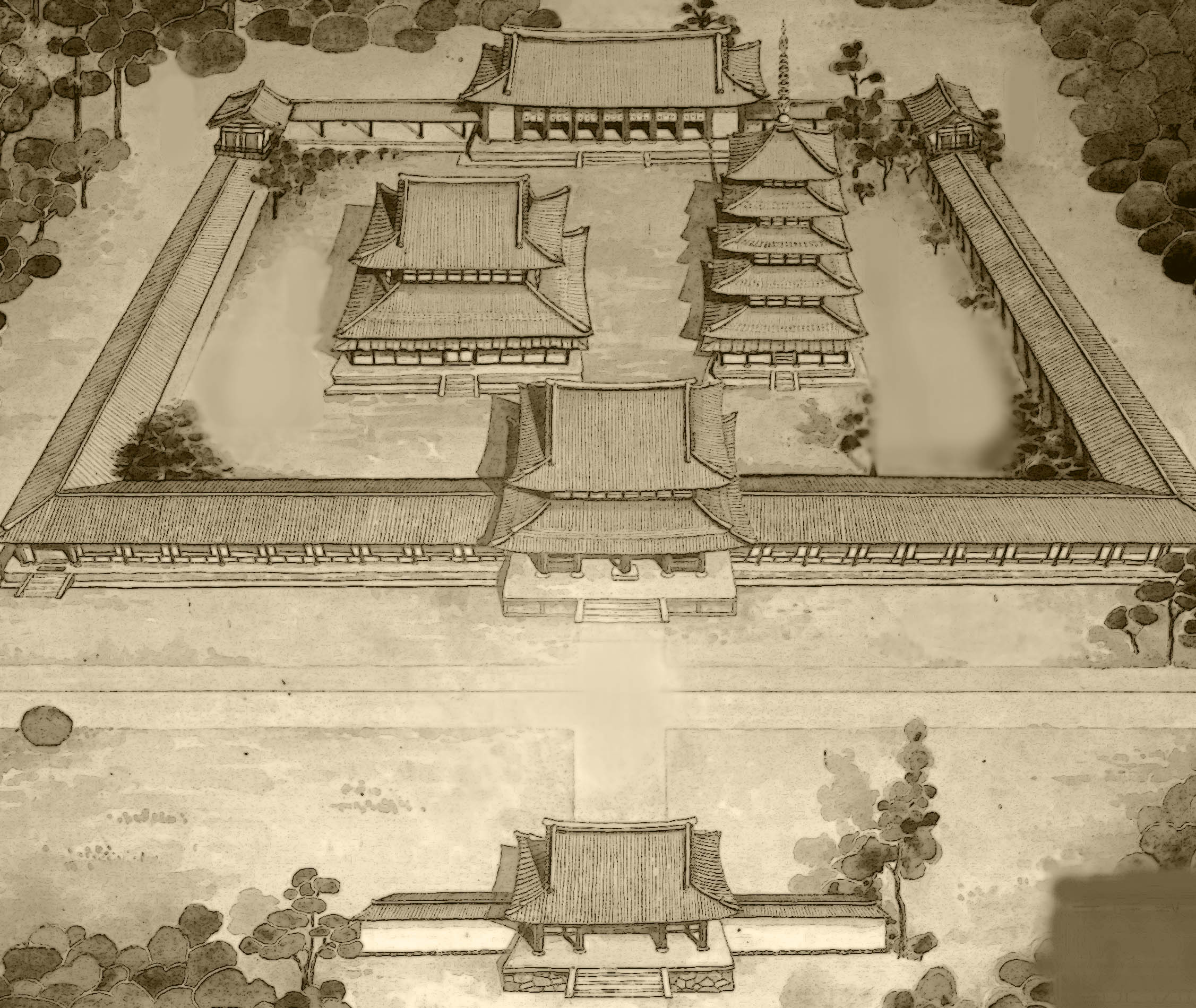 Tempel remains Kōzato in Mima-shi, Tokushima-ken